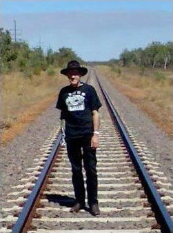 Charlie McMahon at Pine Creek NT, Australia, July 2007